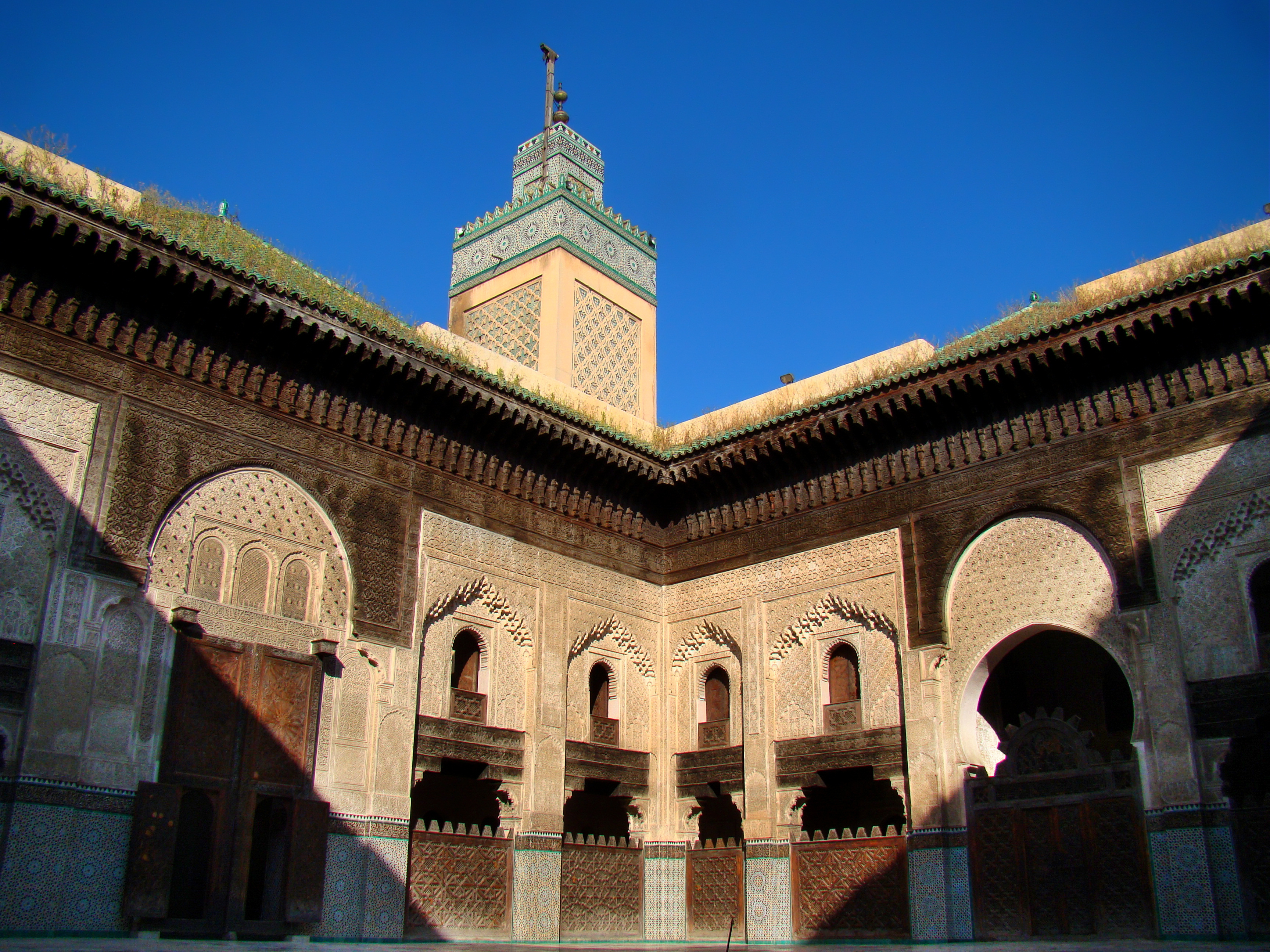 The courtyard and the minaret of Bou Inania Madrasa in Fes, Morocco. The photo was taken in the morning in late April.